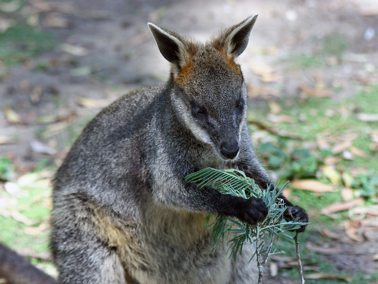 Female Swamp Wallaby (Wallabia bicolor) feeding, showing the species unusual preference for browsing compared to most other macropods that tend to graze. Victoria, Australia. January, 2008.